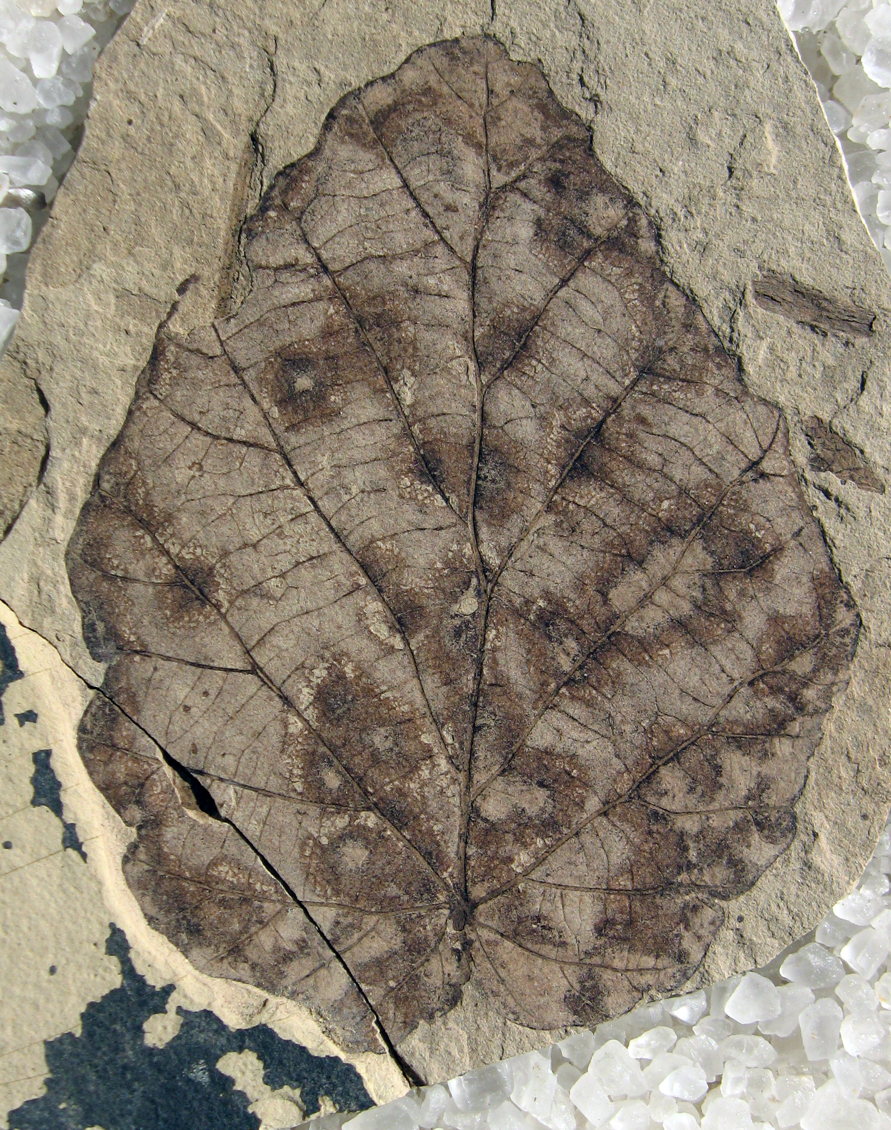 A 7cm tall leaf from the extinct Hamamelidaceae species Fothergilla malloryi.49 million years old, Klondike Mountain Formation, Republic, Washington. Stonerose Interpretive Center Collections#. Identified by Dr. Kathleen Pigg. (same specimen as "Fothergilla malloryi with scale 01" but with ruler)